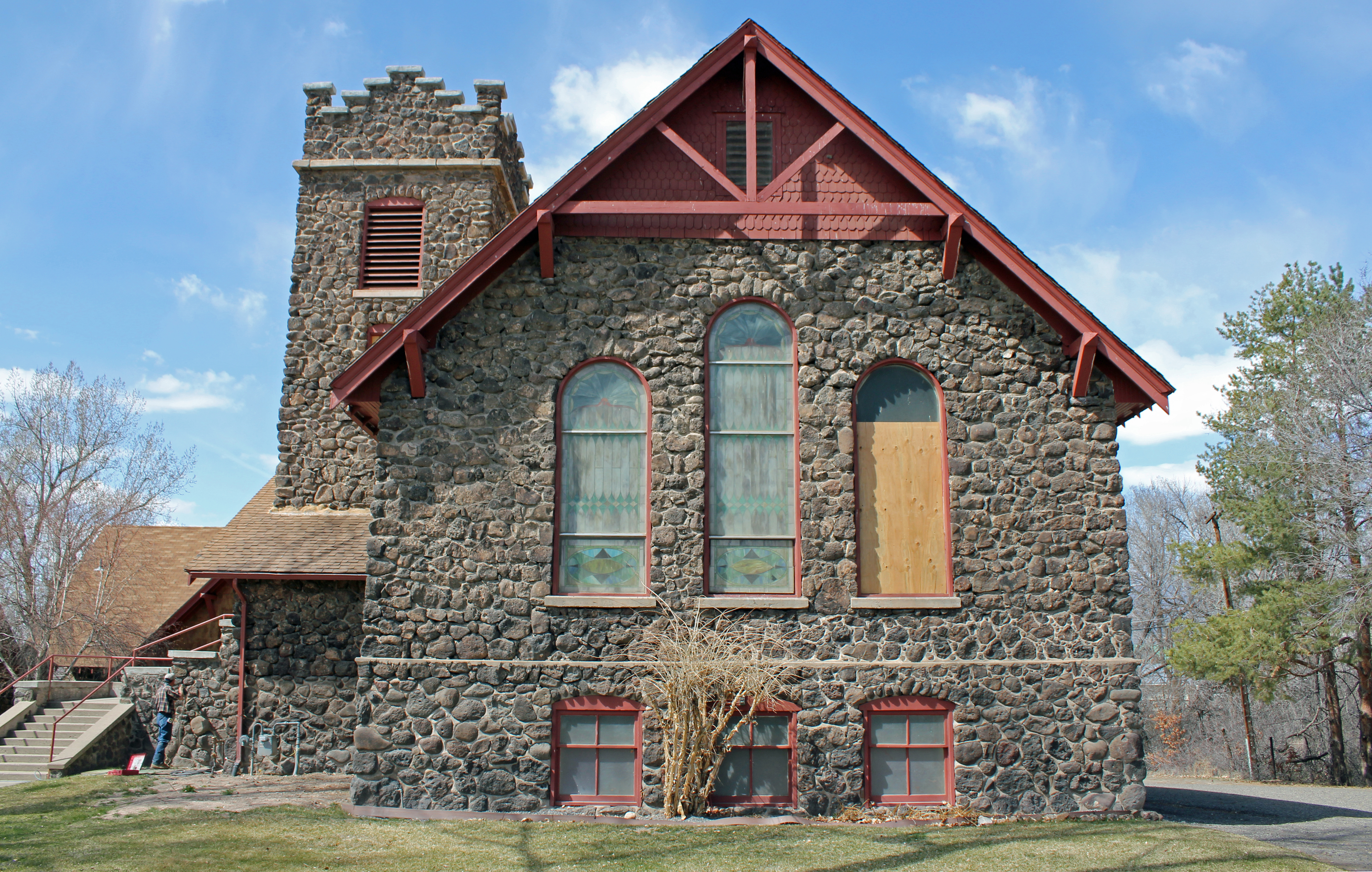 The First Presbyterian Church of Eckert, located at 13011 and 13025 State Highway 65 in Eckert, Colorado. The property is listed on the National Register of Historic Places.